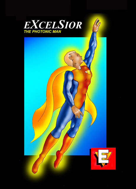 Excelsior the Photonic Man. Generic superhero character wearing a red and blue costume, chest emblem shown at lower right. Educational purpose: to illustrate the visual conventions of American superhero archetypes.